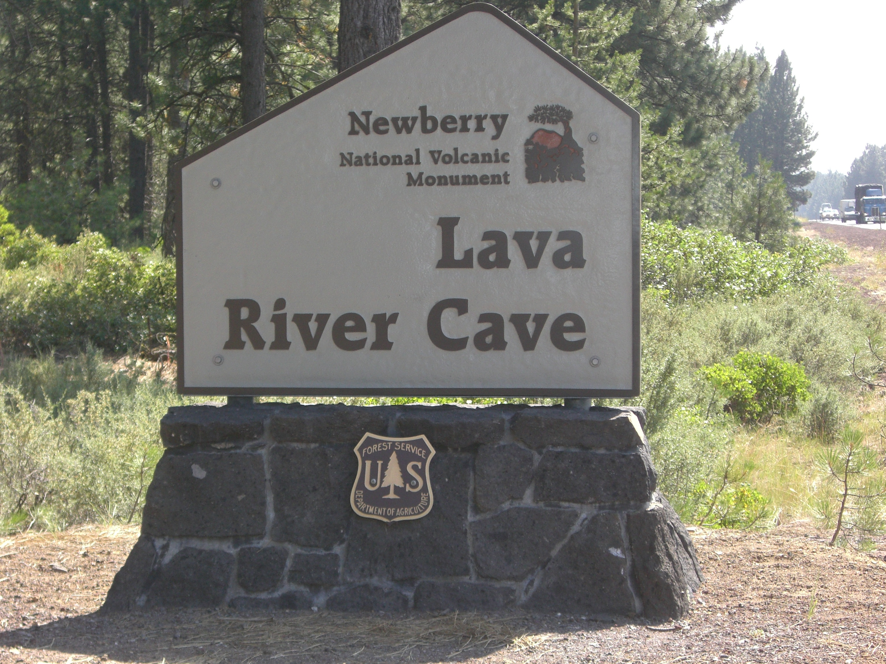 Lava River Cave sign near Bend, Oregon